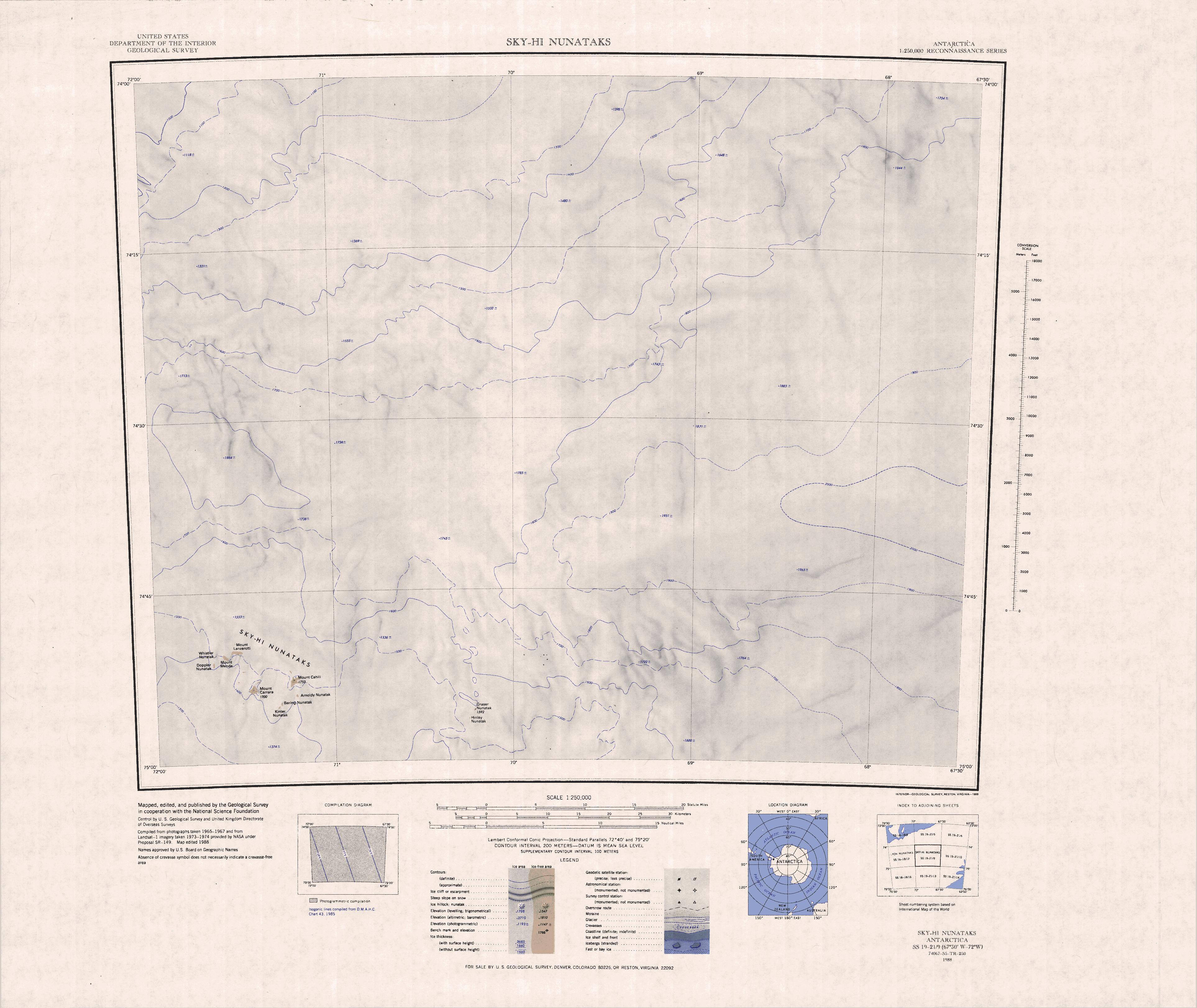 1:250,000-scale topographic reconnaissance map of the Sky-Hi Nunataks area from 67°30'-72°W to 74°-75°S in Antarctica. Mapped, edited and published by the U.S. Geological Survey in cooperation with the National Science Foundation.